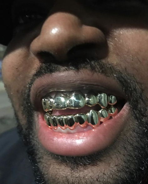 The top 8-teeth and the bottom 10-teeth are covered with 14k gold caps.